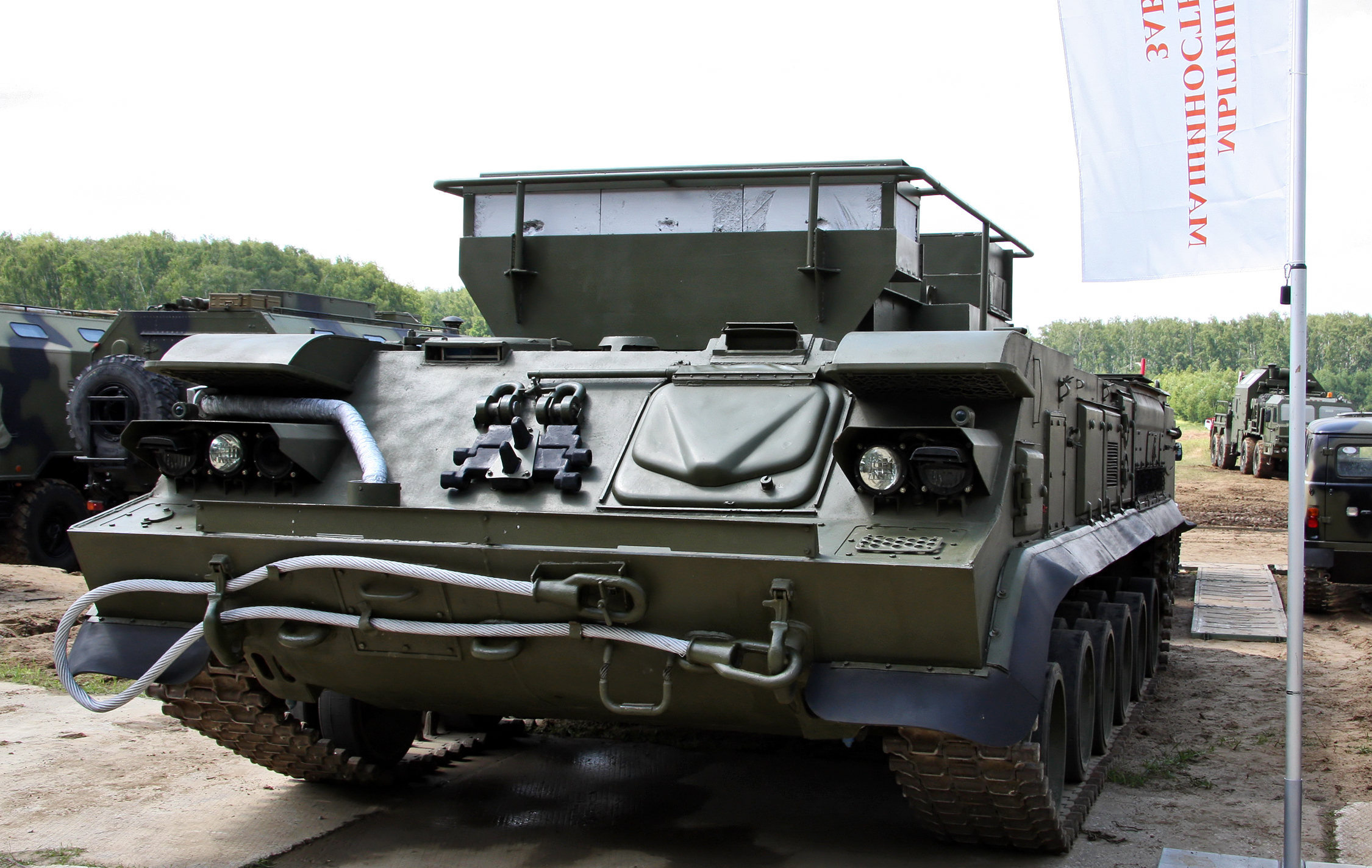 Tracked base chassis GM-5970.05